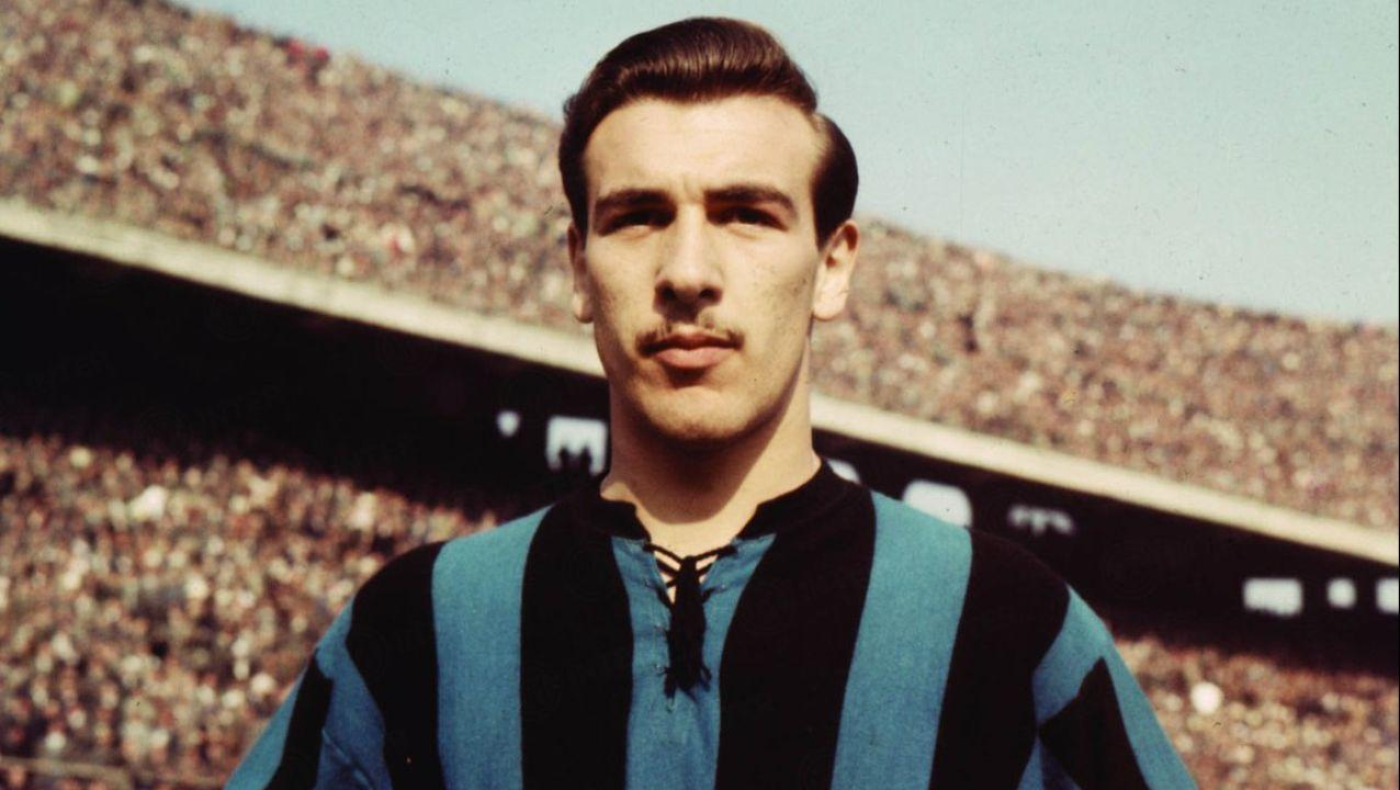 Italian-Argentine footballer Antonio Valentín Angelillo with Inter Milan between 1950s and 1960s, posing inside San Siro in Milan, Italy.